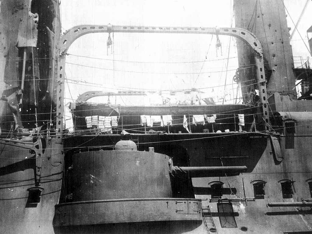 Imperial Russian battleship Tsesarevich at Qingdao, summer 1904.